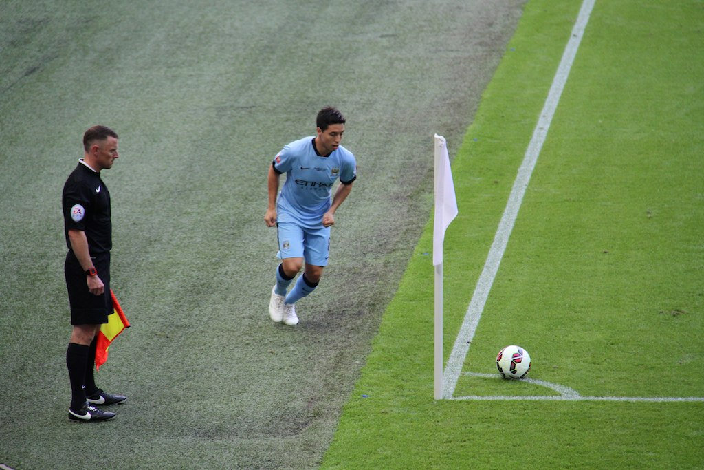 Community Shield 21 - Samir Nasri corner